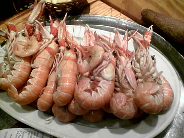 Plato de cigalas (dish of Norway lobsters)